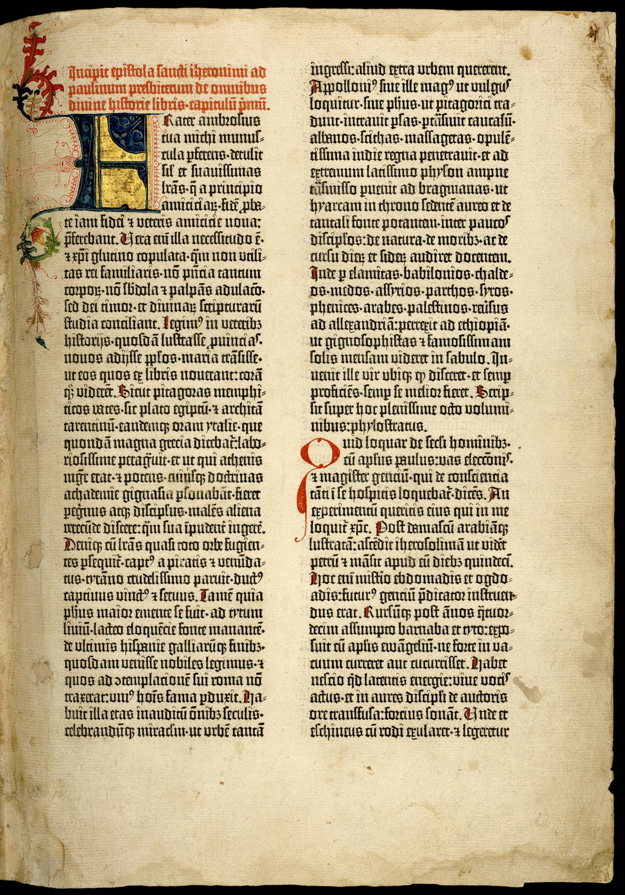 The beginning of the Gutenberg Bible: Volume 1, Old Testament, Epistle of St. Jerome to Paulinus (letter 53). (The Epistle is not a part of the Bible itself, but an introduction by St. Jerome, the translator of the Bible into Latin Vulgate, which the Gutenberg Bible is written in.) Ransom Center, University of Texas at Austin.